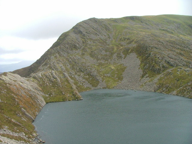 Y Llethr across Llyn Hywel from scree slope of Rhinog Fach, near to Llyn Hywel [water Feature], Gwynedd, Great Britain.